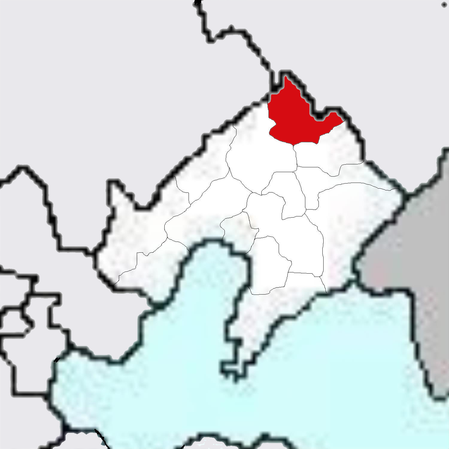 Locator map of Tieling Prefecture — Liaoning Province, northeastern China